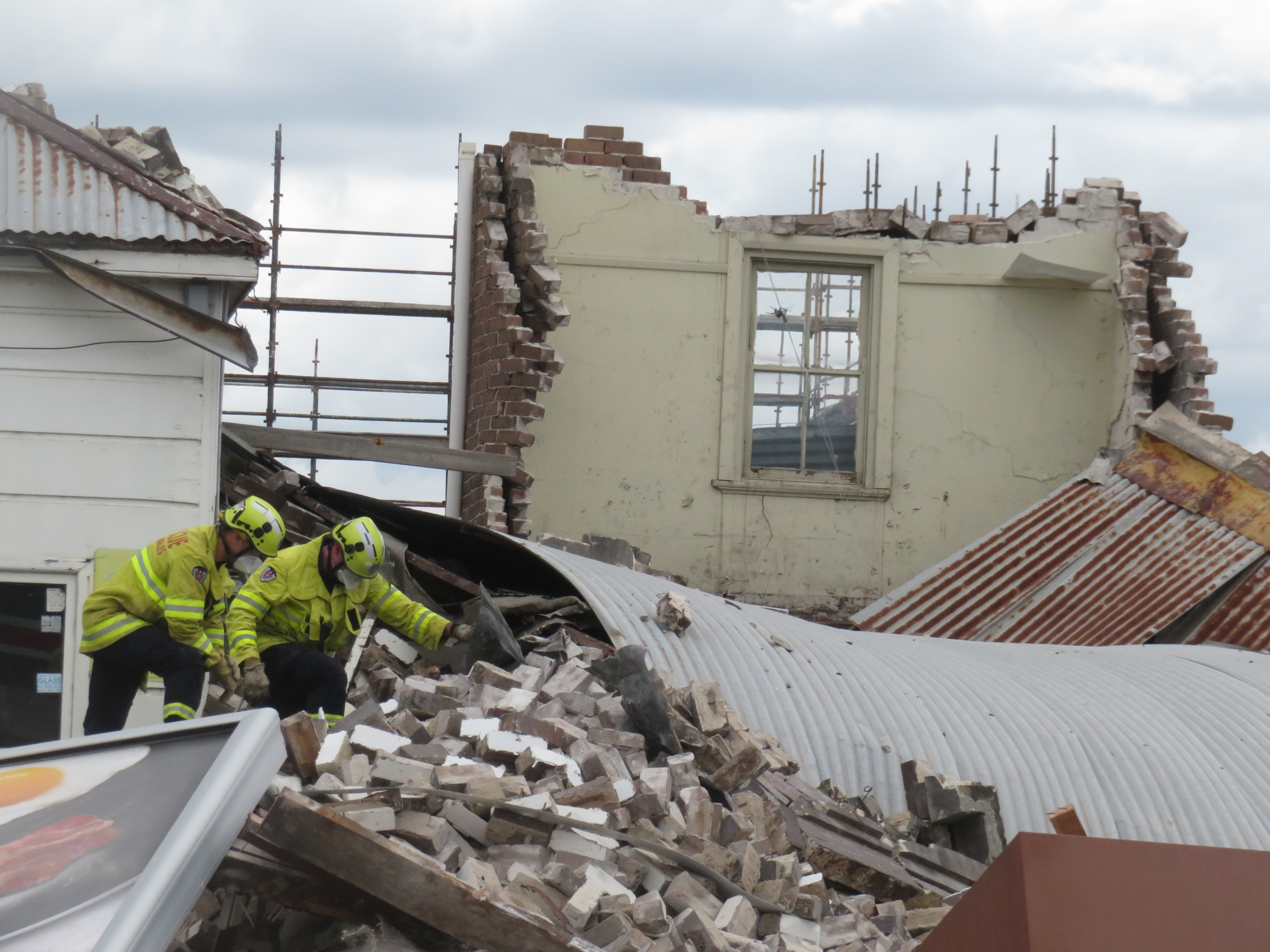 Fire and Rescue NSW firefighters search through the rubble of a building collapse at Hurlstone Park in Sydney's Inner West